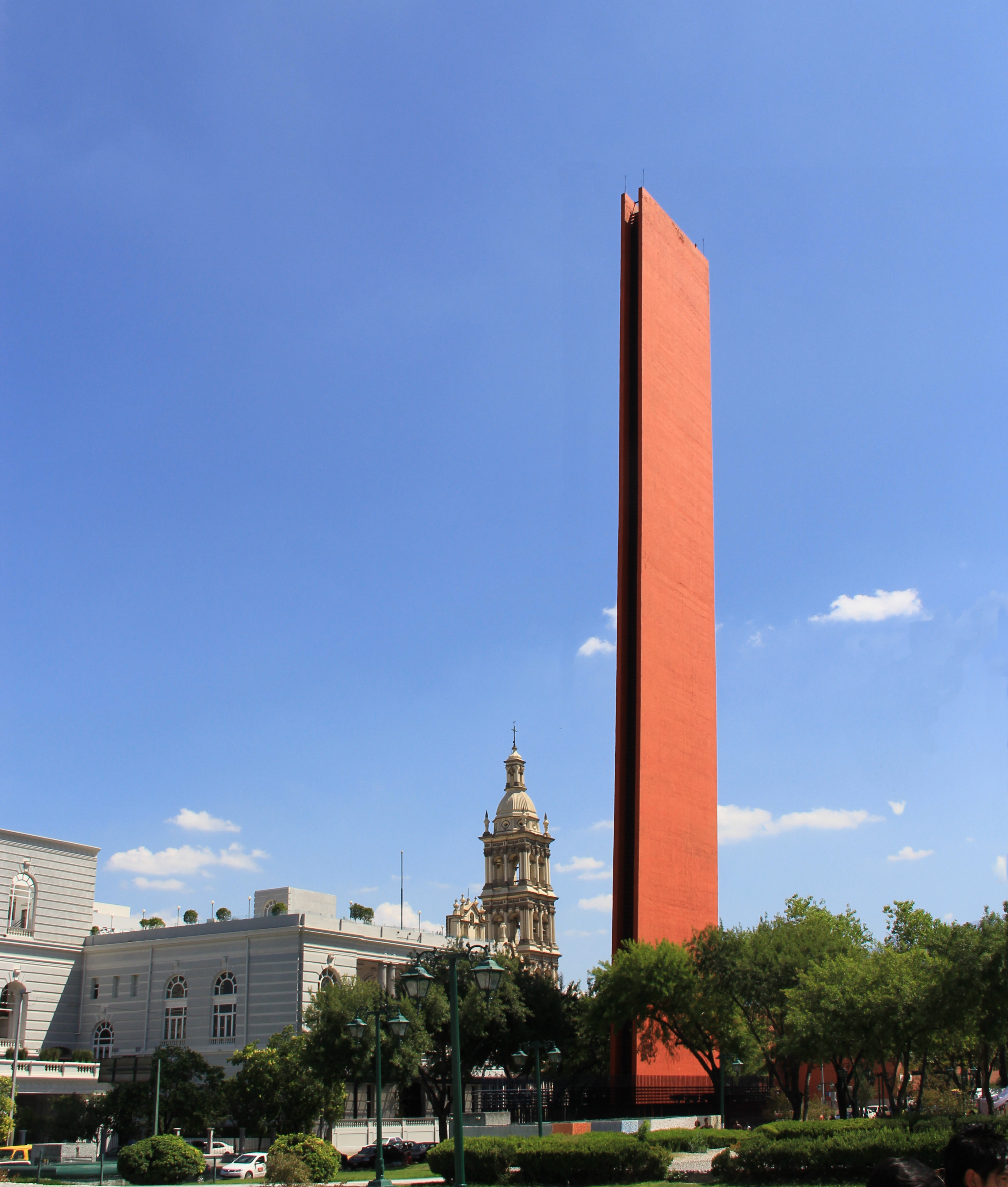 Faro del comercio, Monterrey, Nueve León, Mexico